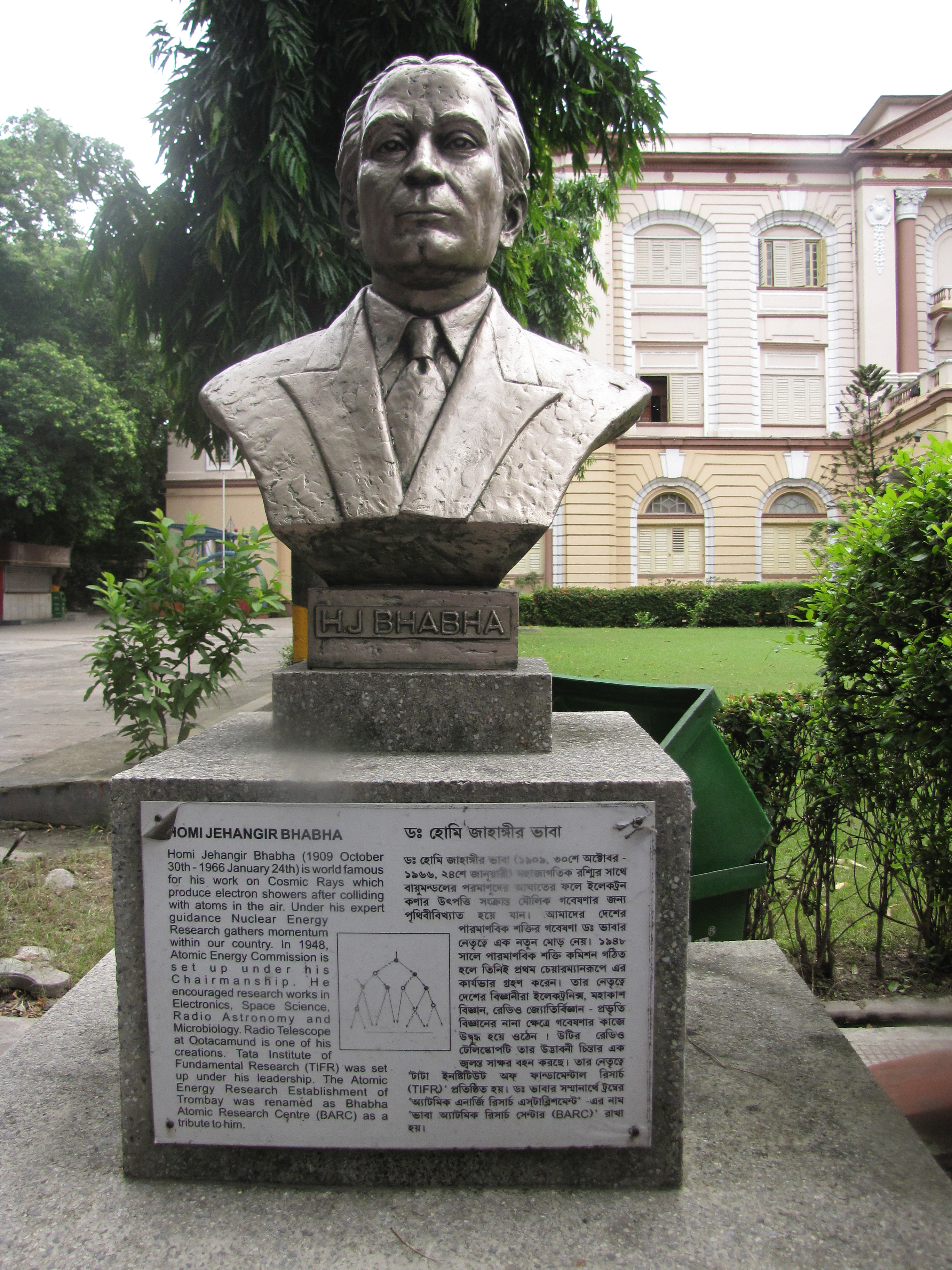 Bust of Homi Jehangir Bhabha, pioneering Indian nuclear physicist, which is placed in the garden of Birla Industrial & Technological Museum.